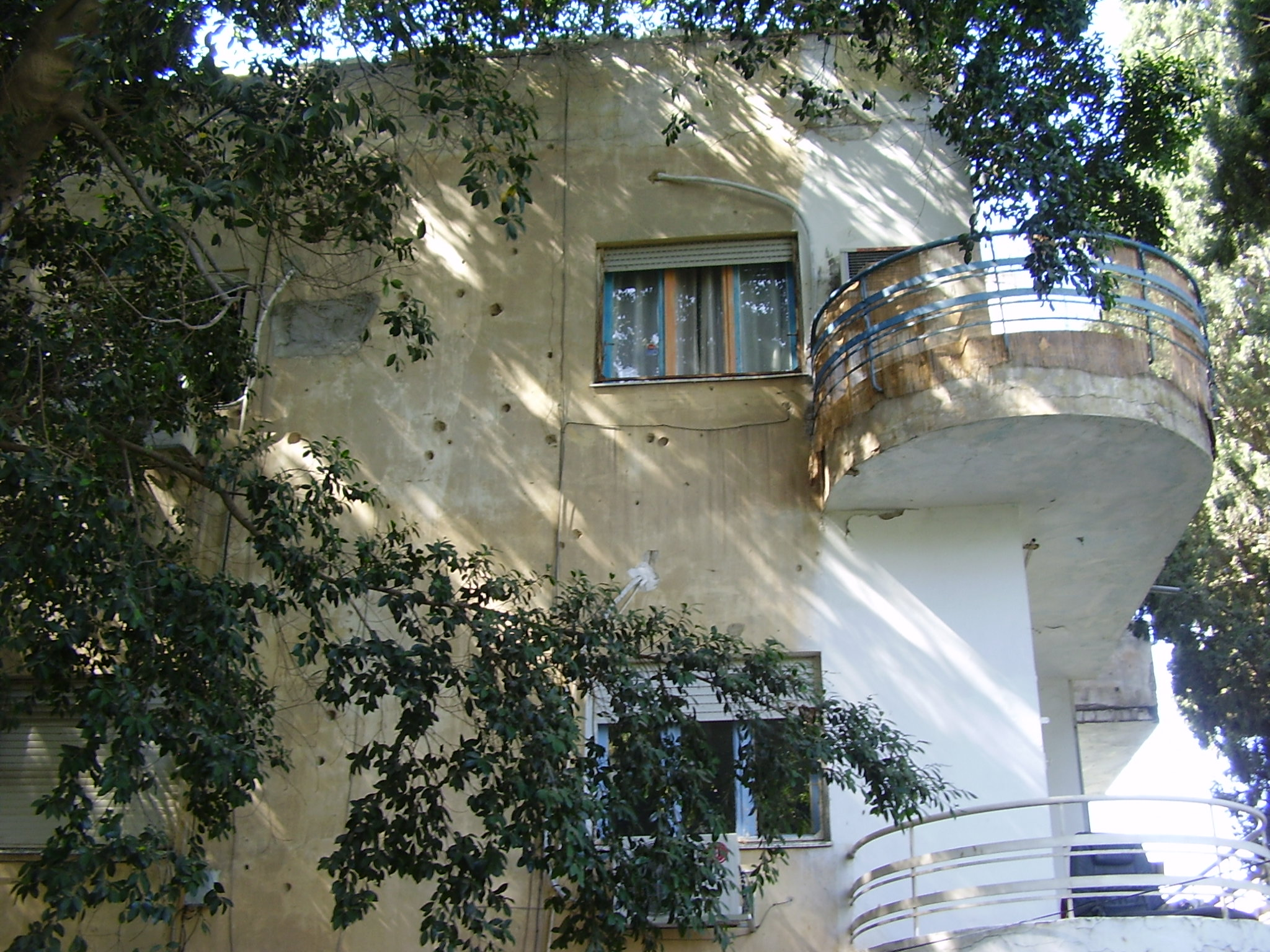 egyptian bombing of ramat gan in the independence war